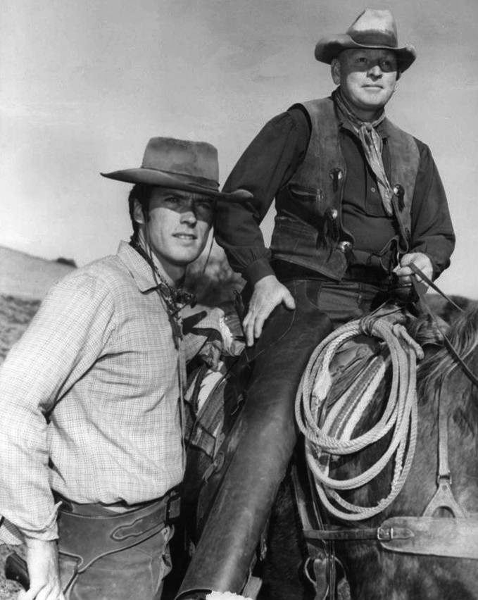 Photo of Clint Eastwood and Don Hight from the television program Rawhide.